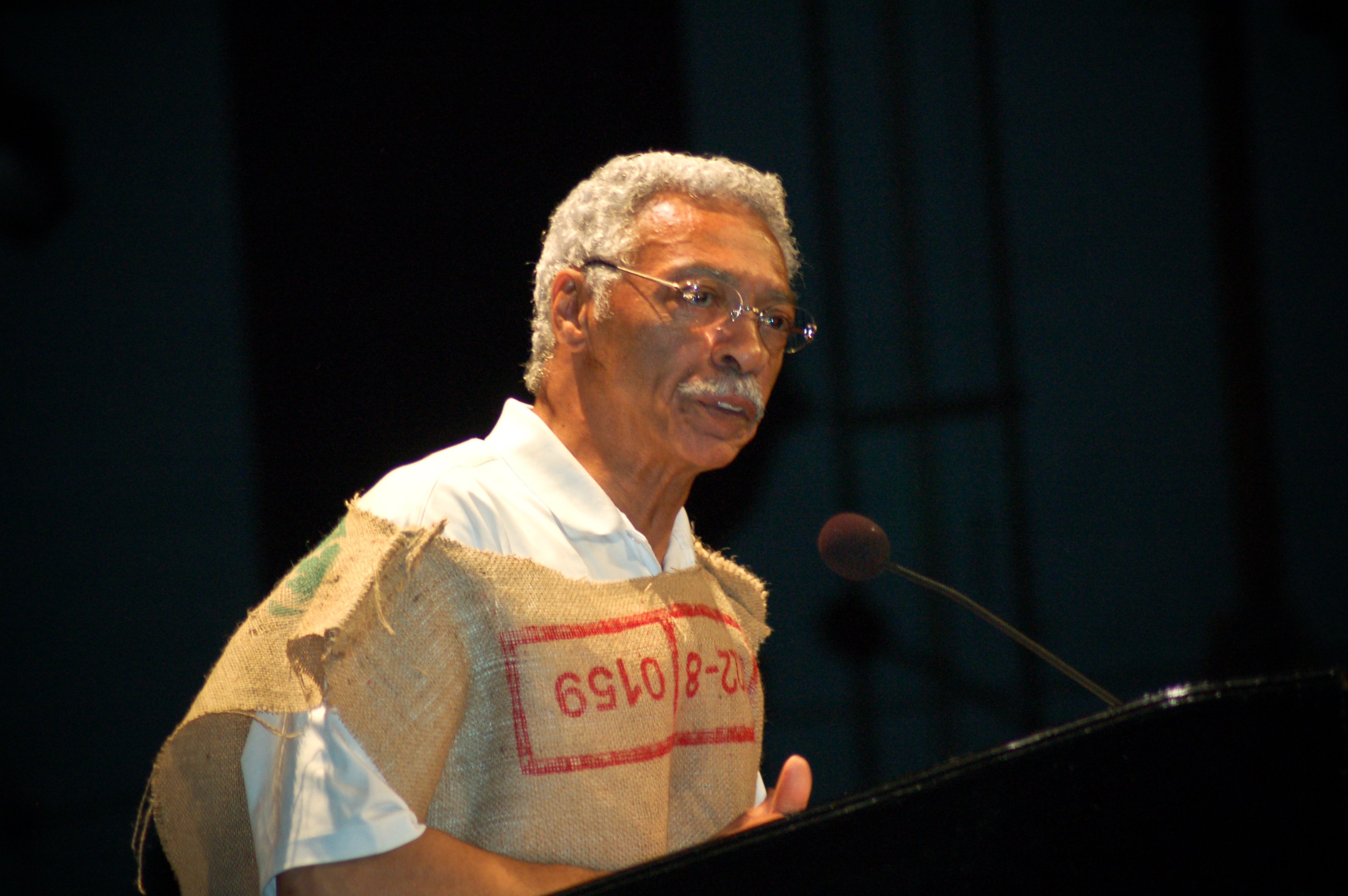 "It's time to take back the city and repent of our sins. Evil will not prevail in my house"